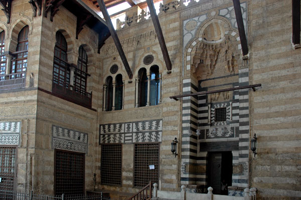 Madrasa of al-Ghuri. Mausoleum. Cairo. Egypt